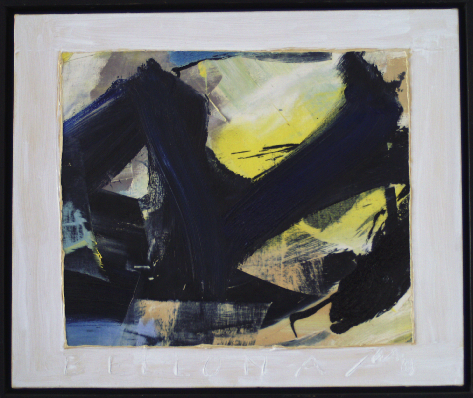 Bellona (1989) by the Dutch artist JAS.